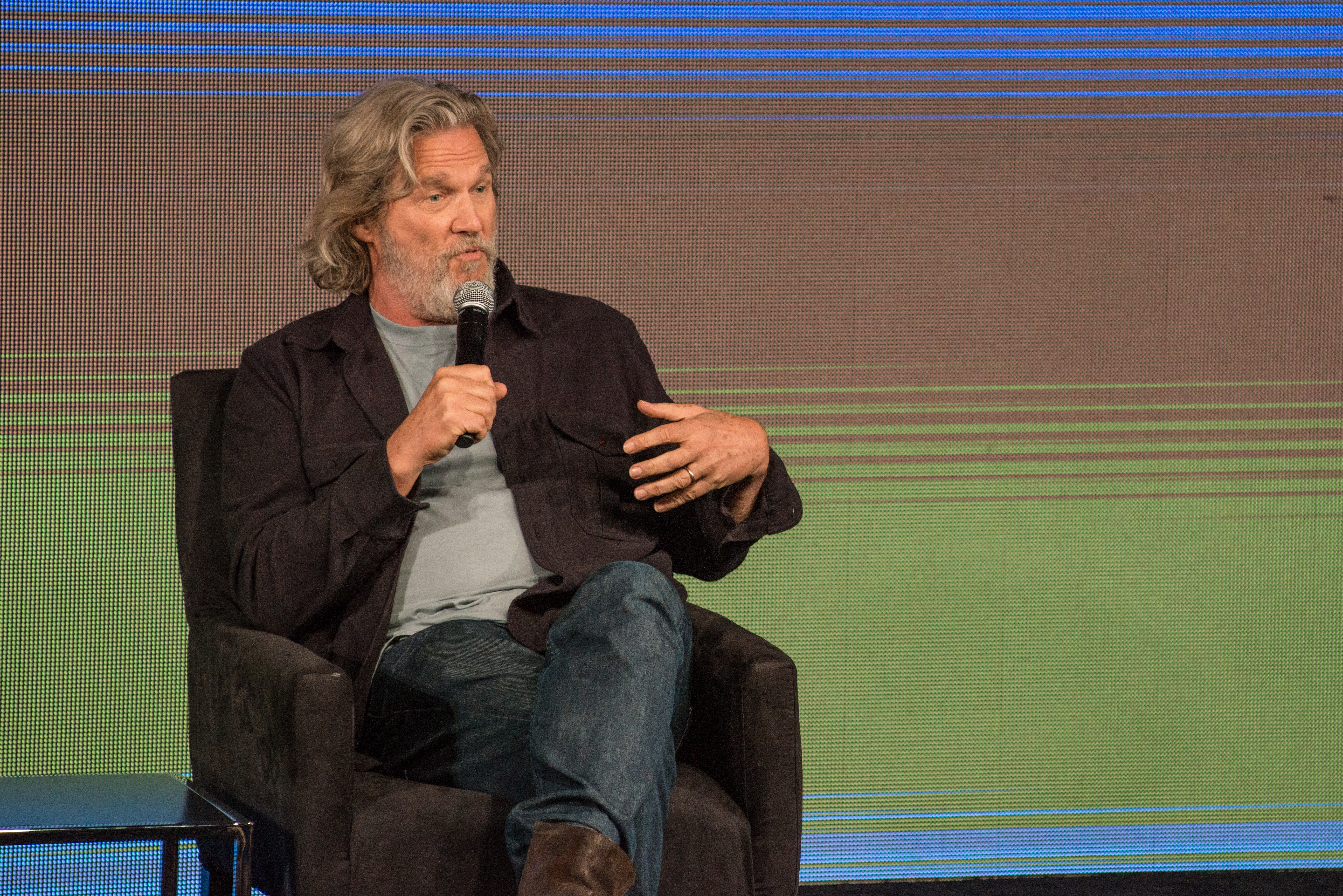 Jeff Bridges talking about The Giver in 2014